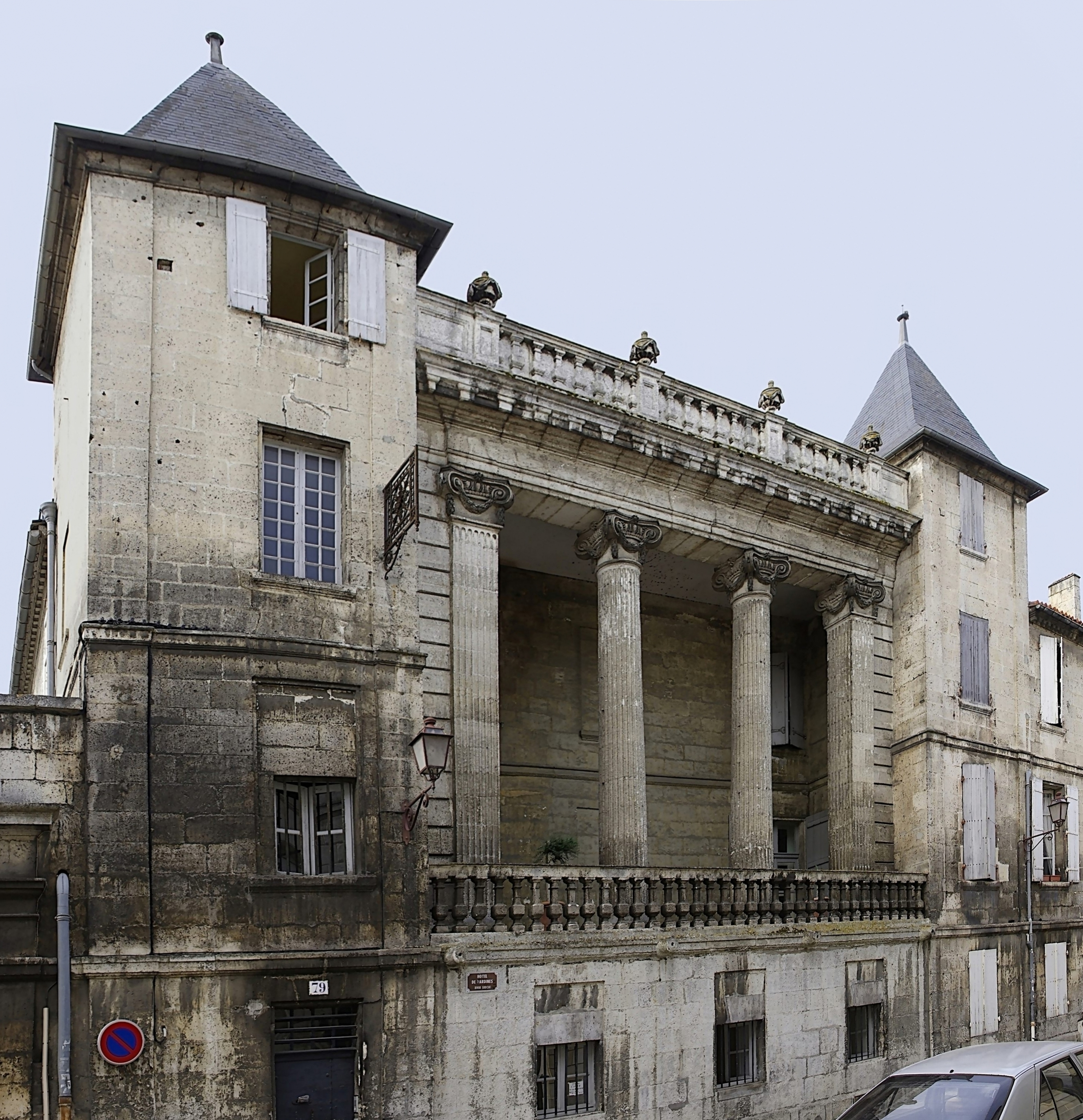 Hôtel de Bardine (XVIIIth century), rue de Beaulieu, Angoulême, Charente, France. Architect : Jean-Baptiste Vallin de La Mothe (1728-1800)